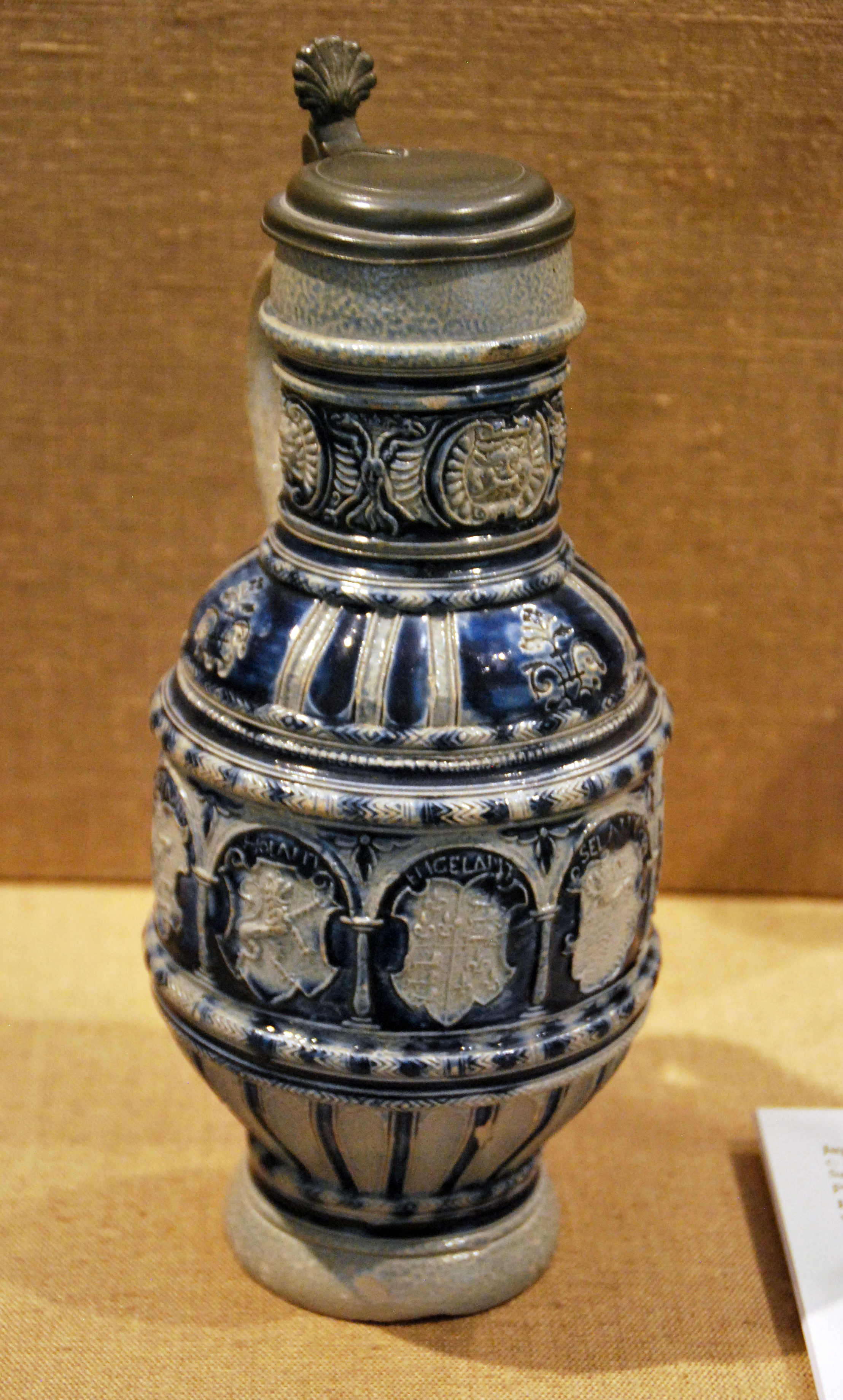 Jug with coat of arms; Salt glazed Stoneware with Cobalt decoration and pewter lid; c. 1600 made by Emont & Johann Mennicken, from the Westerwald; Charles W. Nichols Collection, "The Art of German Stoneware" 2012 exhebition.